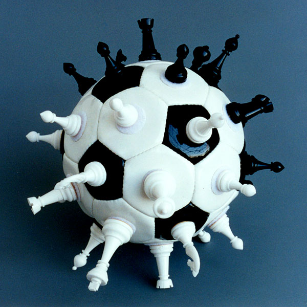 Milan Mikuláštík - Chessball, 1998 playable game combining football and chess ball, chess set, velcro